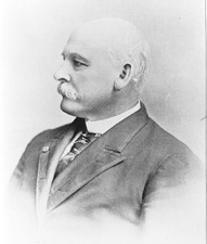 George Laird Shoup